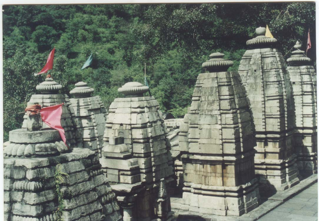 Adi Badri Temple in Uttarakhand near Karnaprayag